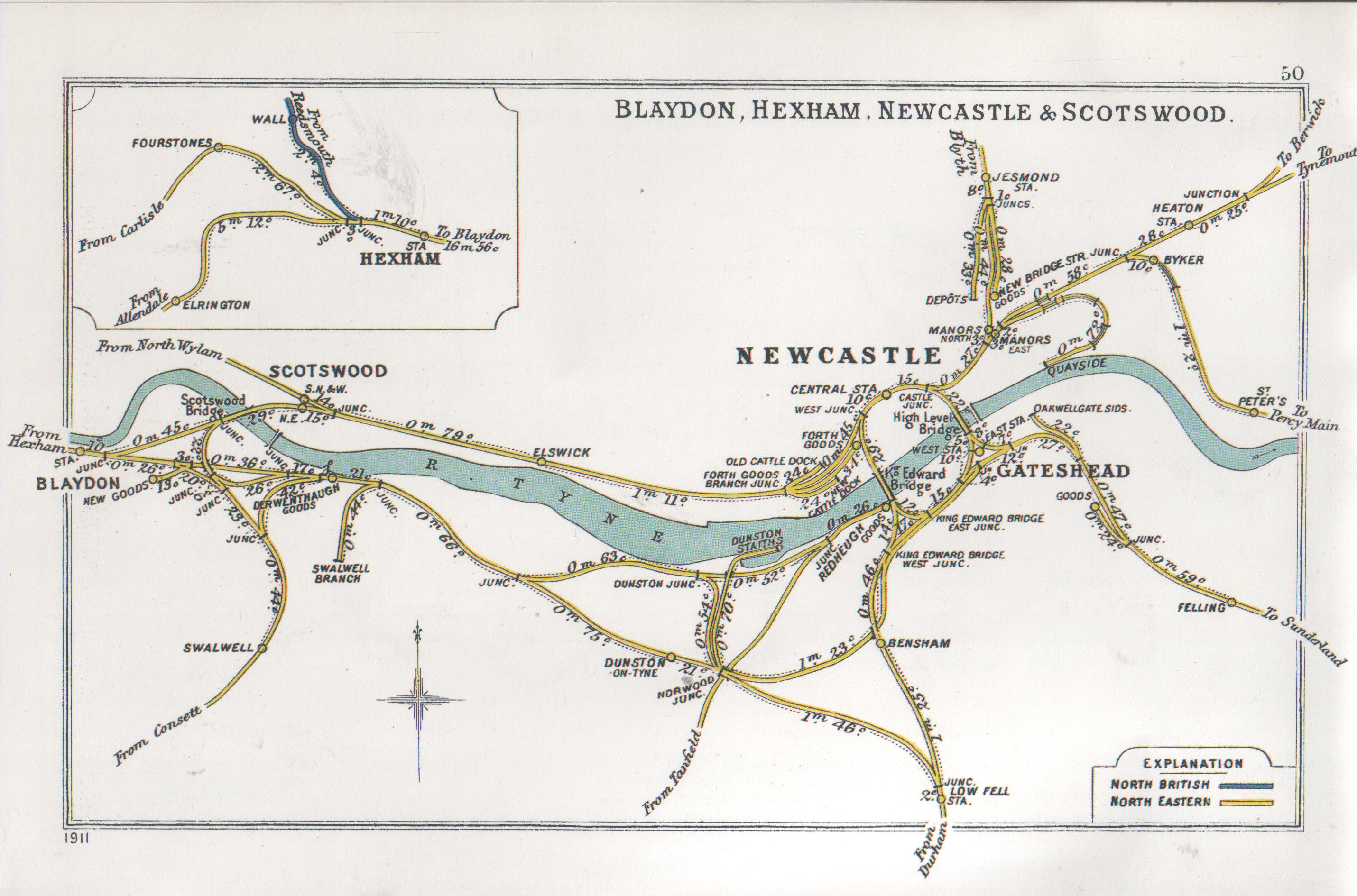 Pre Grouping railway junction around Blaydon, Hexham, Newcastle & Scotswood